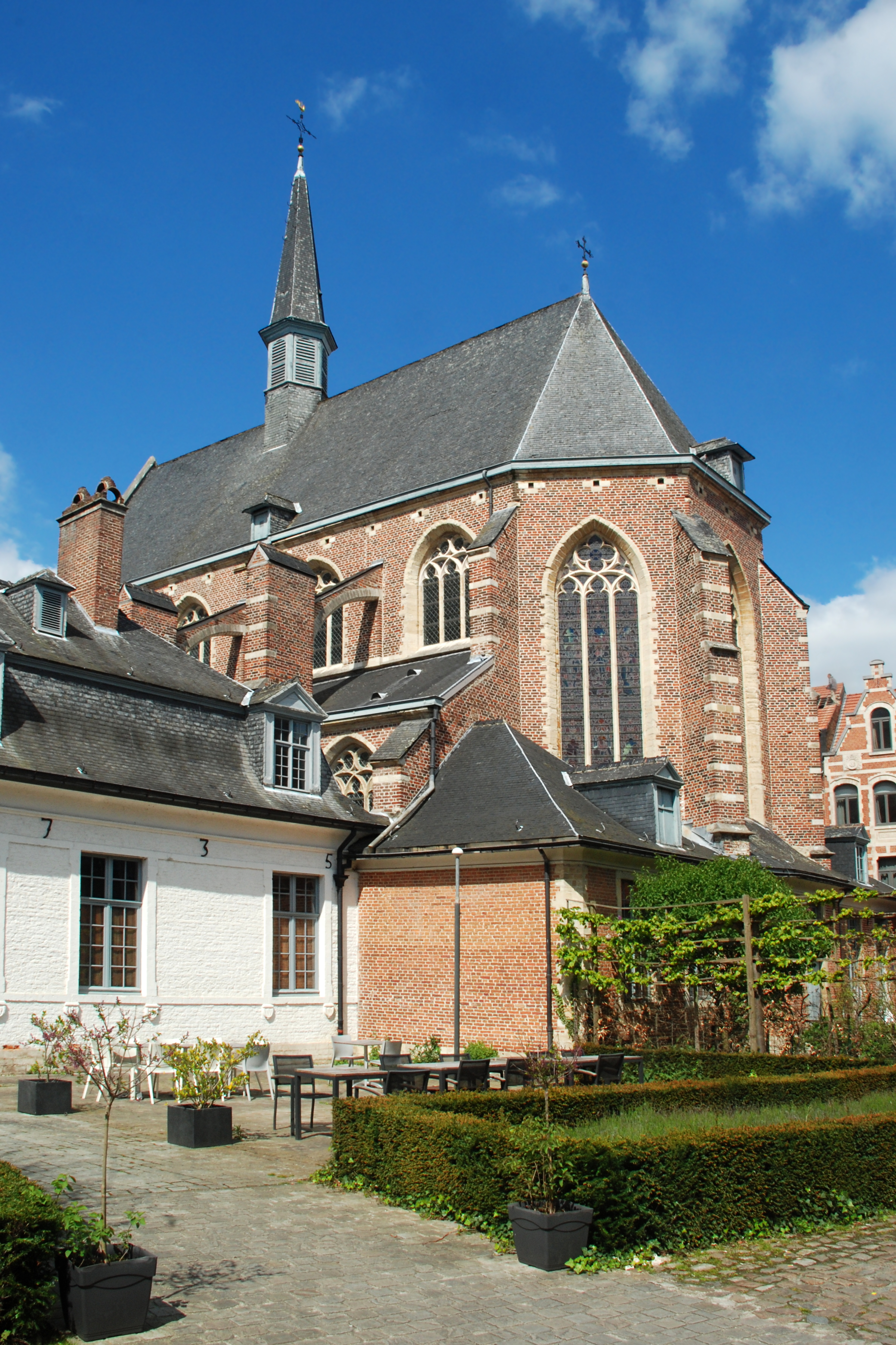 Belgium - Leuven - Chapel of the Romanesque Portal